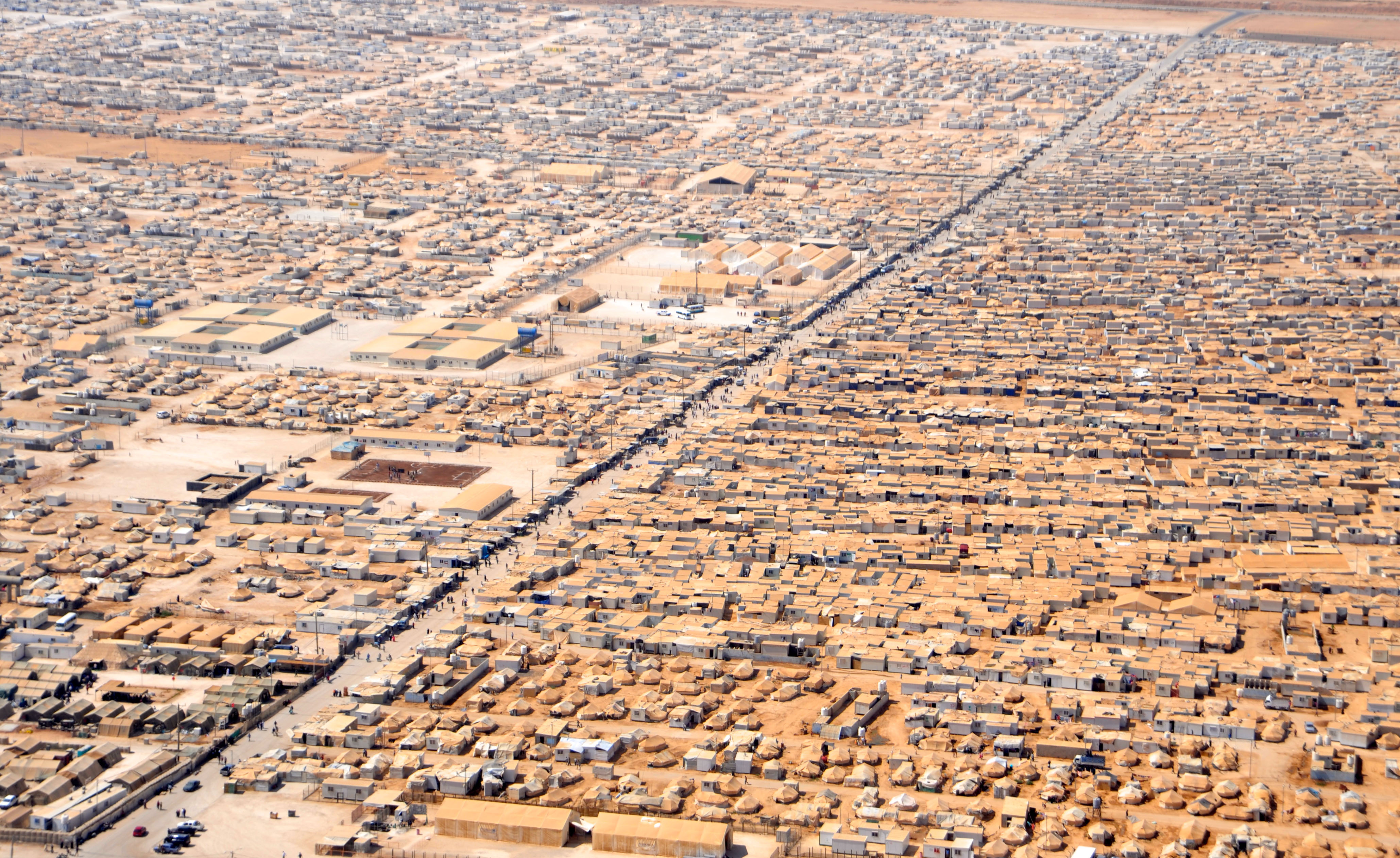 A close-up view of the Za'atri camp in Jordan for Syrian refugees as seen on July 18, 2013, from a helicopter carrying U.S. Secretary of State John Kerry and Jordanian Foreign Minister Nasser Judeh. [State Department photo/ Public Domain]